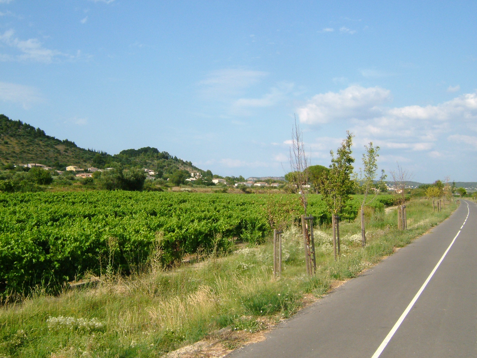 The Voie Verte as it passes through the Vaunage between 30111 Congénies and 30420 Calvisson. To the left is the Roc de Gachone.